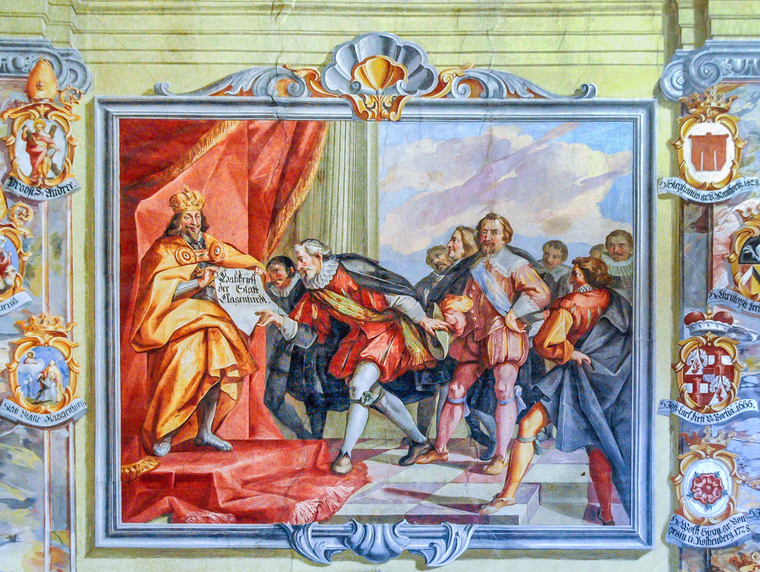 Fresco of Josef Ferdinand Fromiller in Großer Wappensaal, Landhaus Klagenfurt, south wall, 1740. Portrayed is Emperor Maximilian I. giving the letter of donation of the city Klagenfurt to the nobles of Carinthia, on April 24th, 1518, inner city, statutary city Klagenfurt, Carinthia, Austria, EU